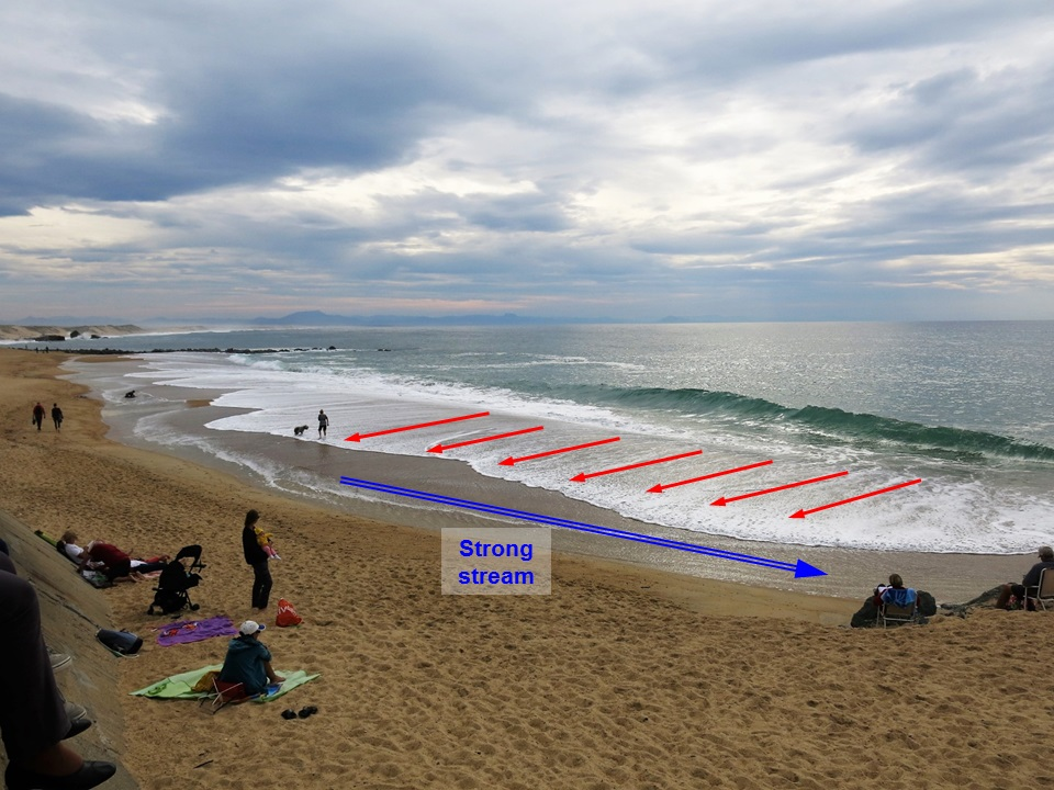 Development of a small baïne (dangerous natural pool) in Capbreton (Landes, France). The waves feed with water (small red arrows). Water flows out in a strong lateral stream (blue arrow).